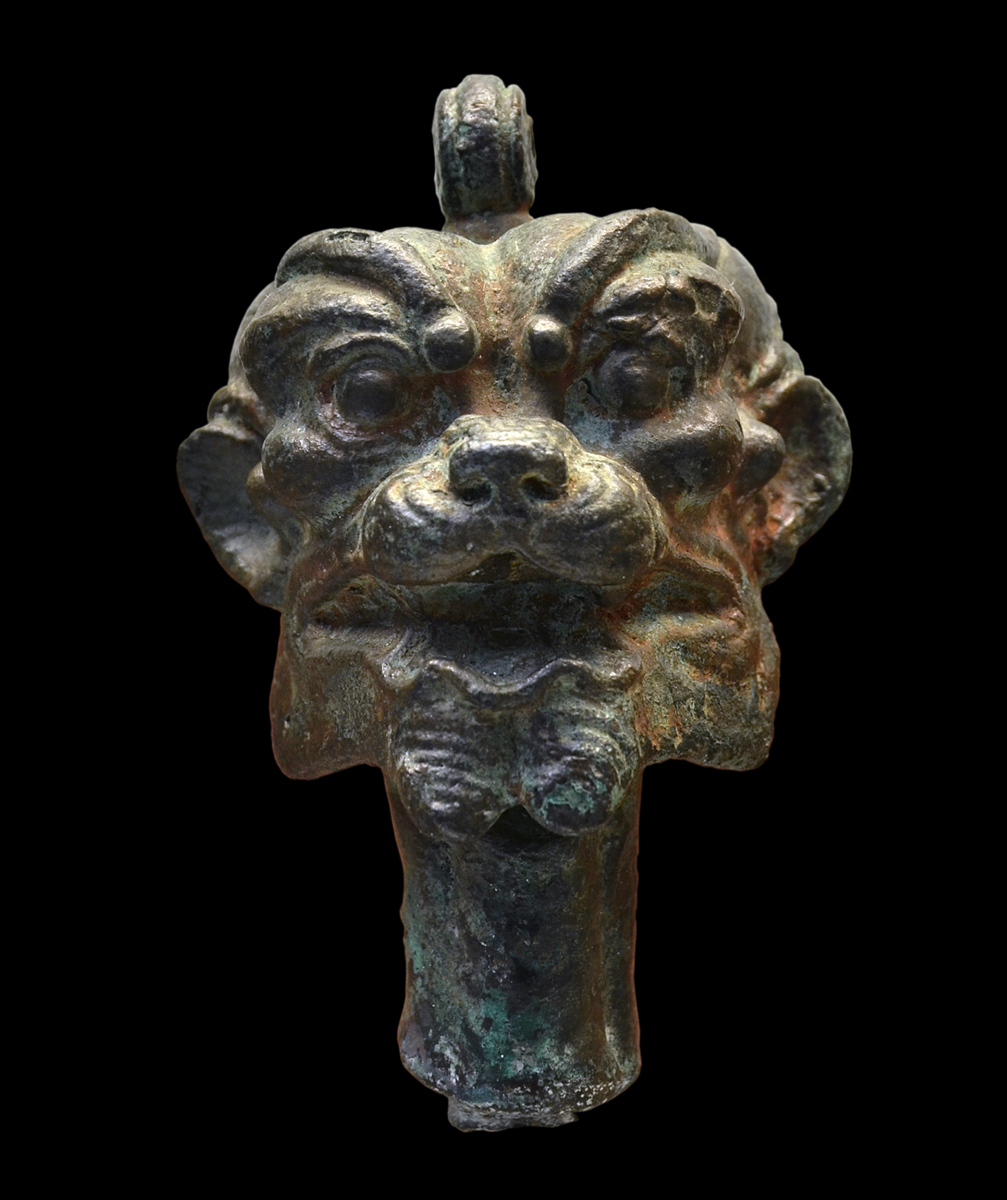 Bronze head of Pazuzu, Mesopotamia (probably from Nimrud), 900-612 BC, now in the room 56 of the British Museum.